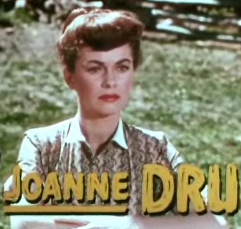 Cropped screenshot of Joanne Dru from the trailer for the film Vengeance Valley.